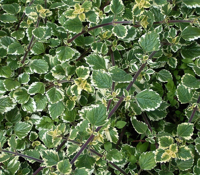 Plectranthus forsteri